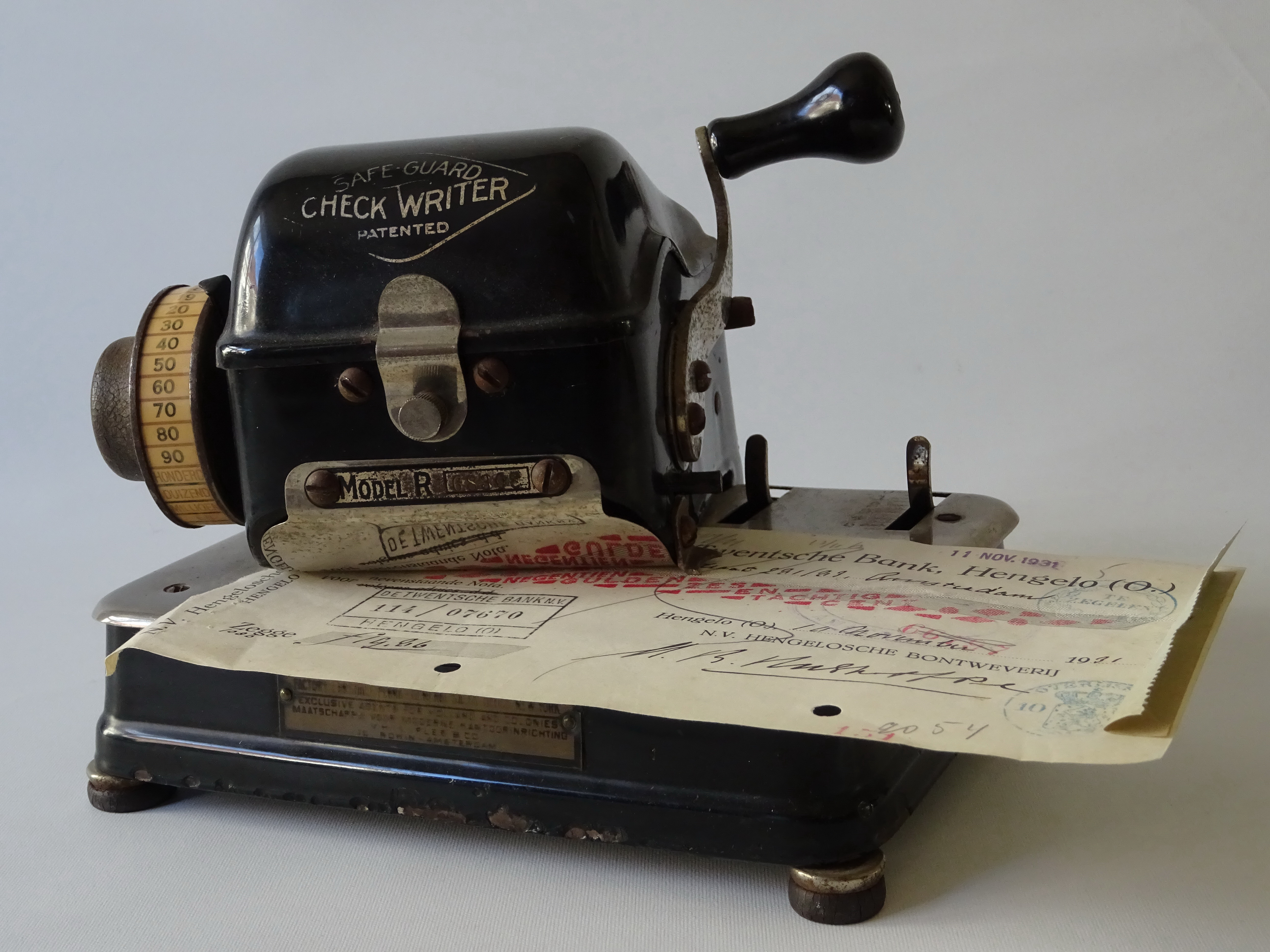 Safe Guard Checkwriter 1919 with a written check